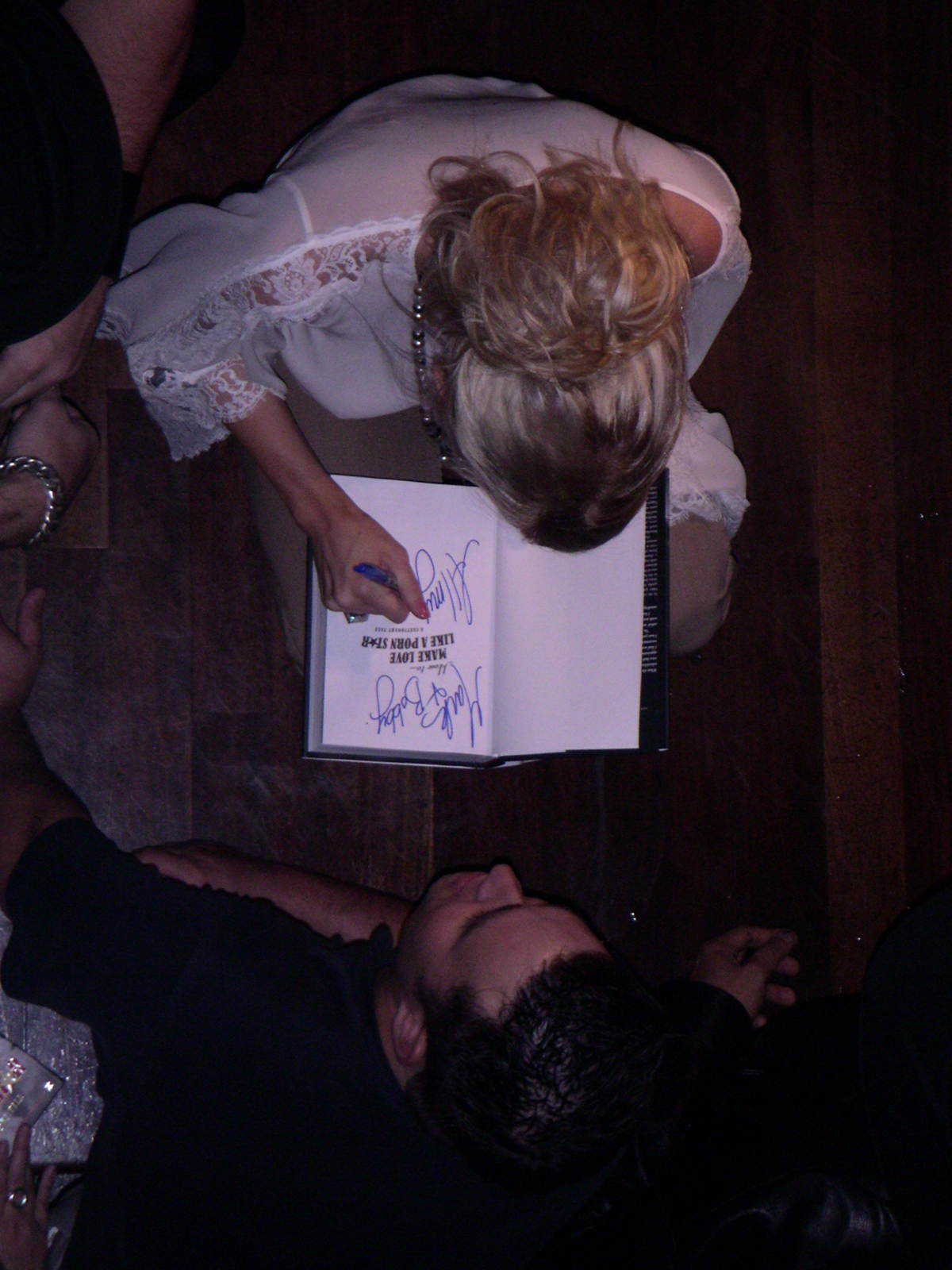 2004 August - Jenna Jameson book launch party